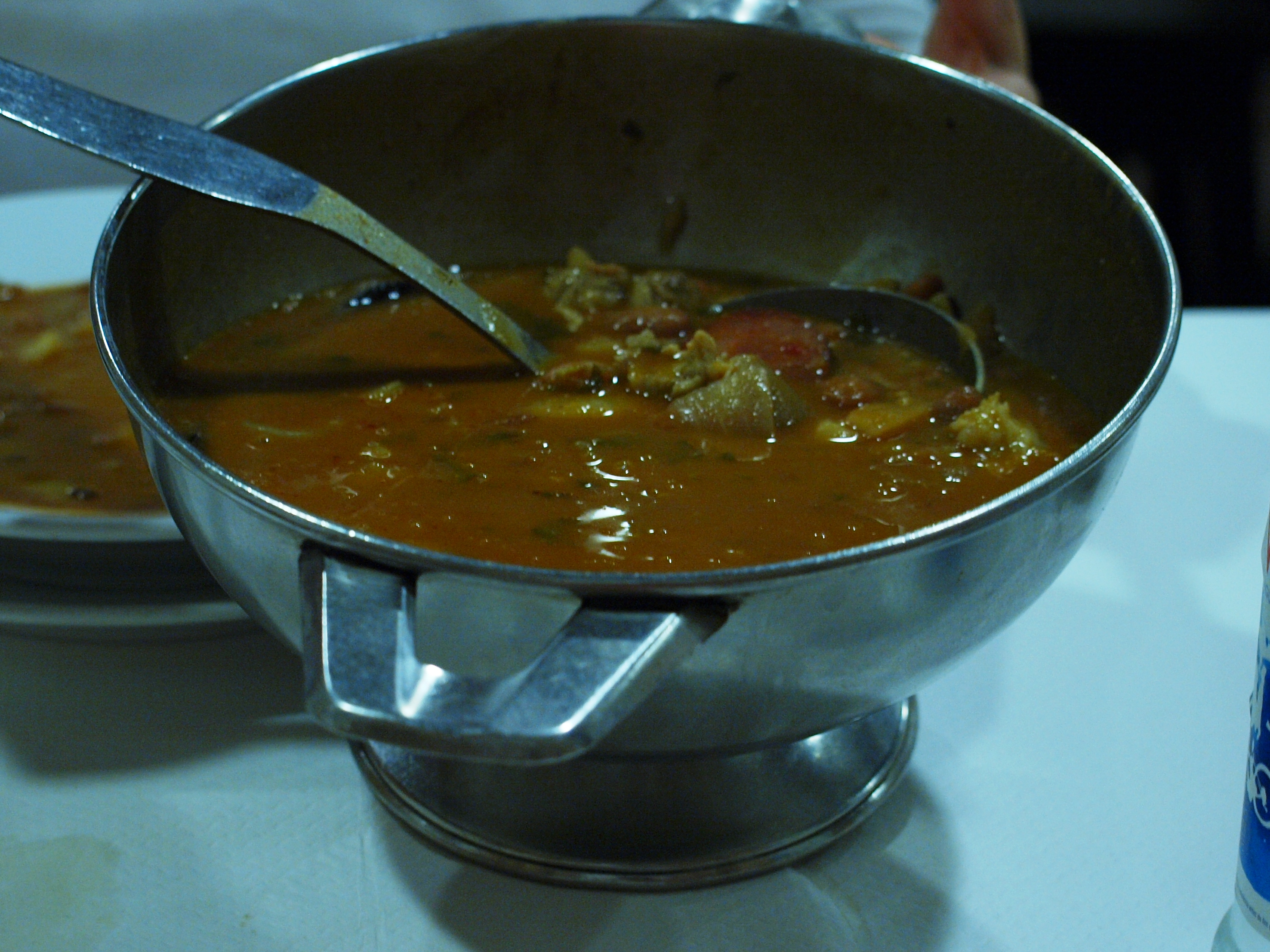 "Sopa da pedra" (stone soup) served in Almeirim, Portugal.